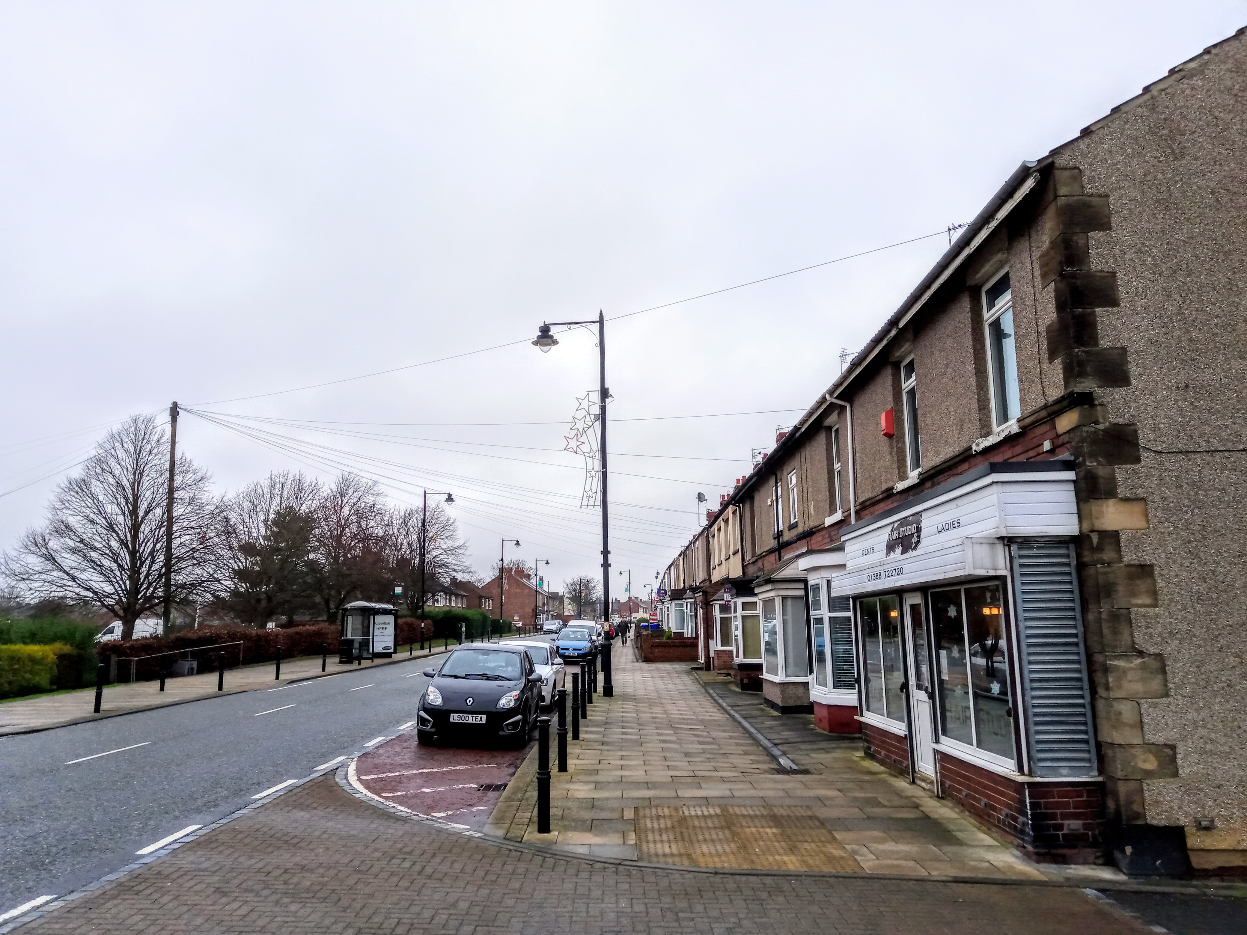 Chilton